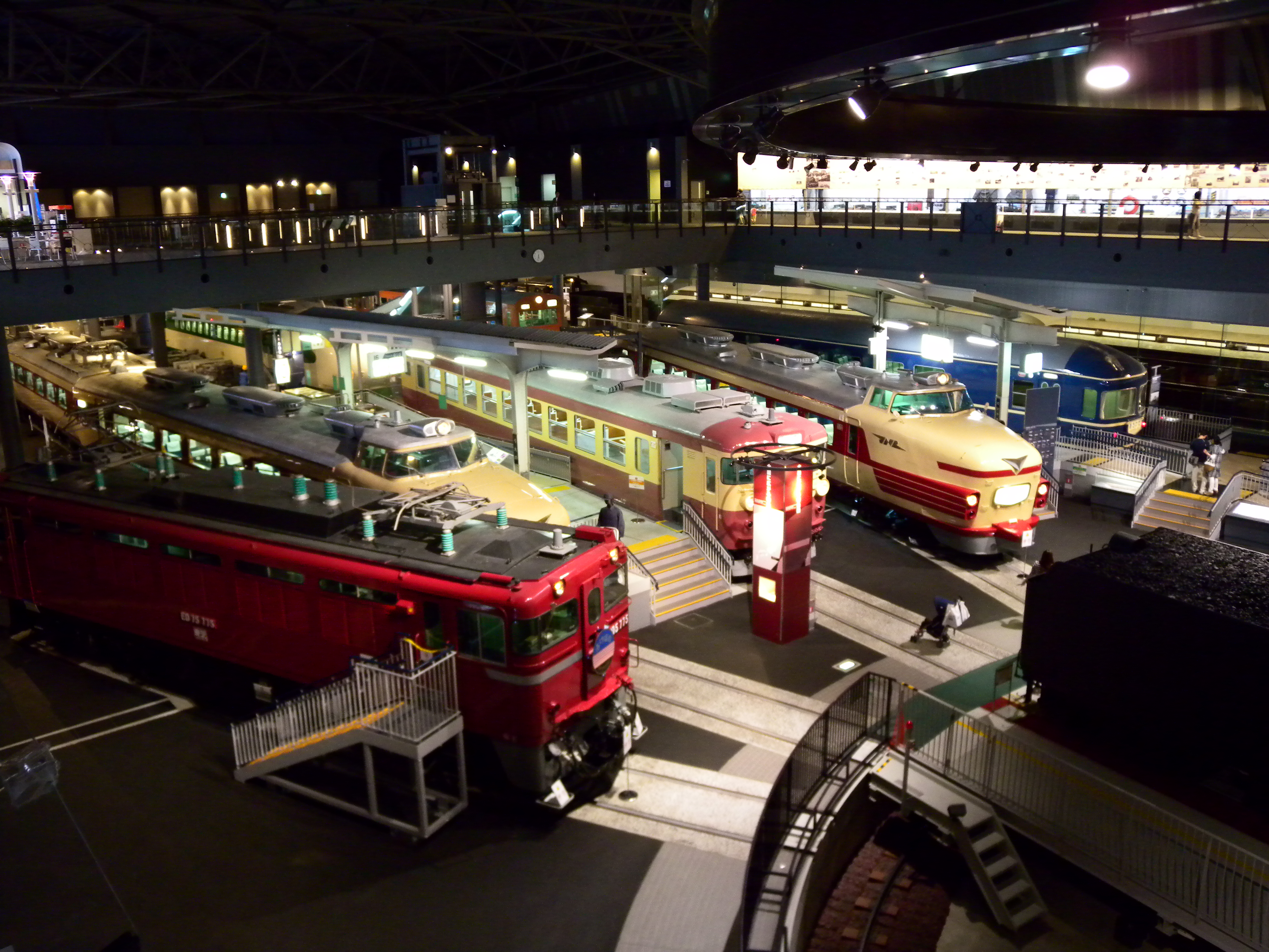 First floor of omiya railway museum